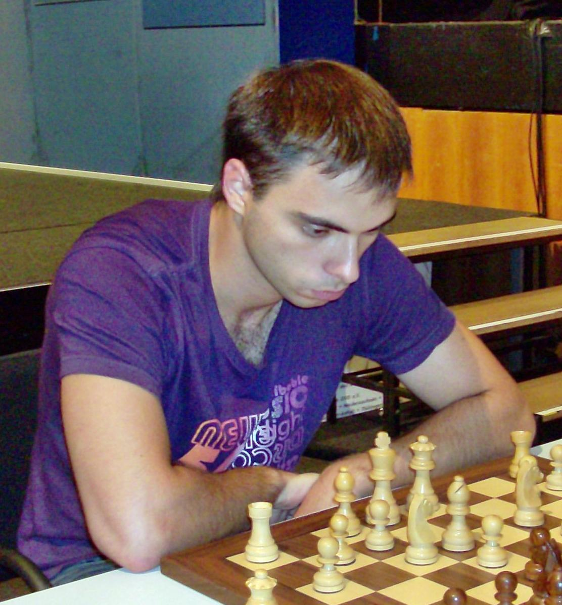 Alexander Riazantsev, chess grandmaster from Russia